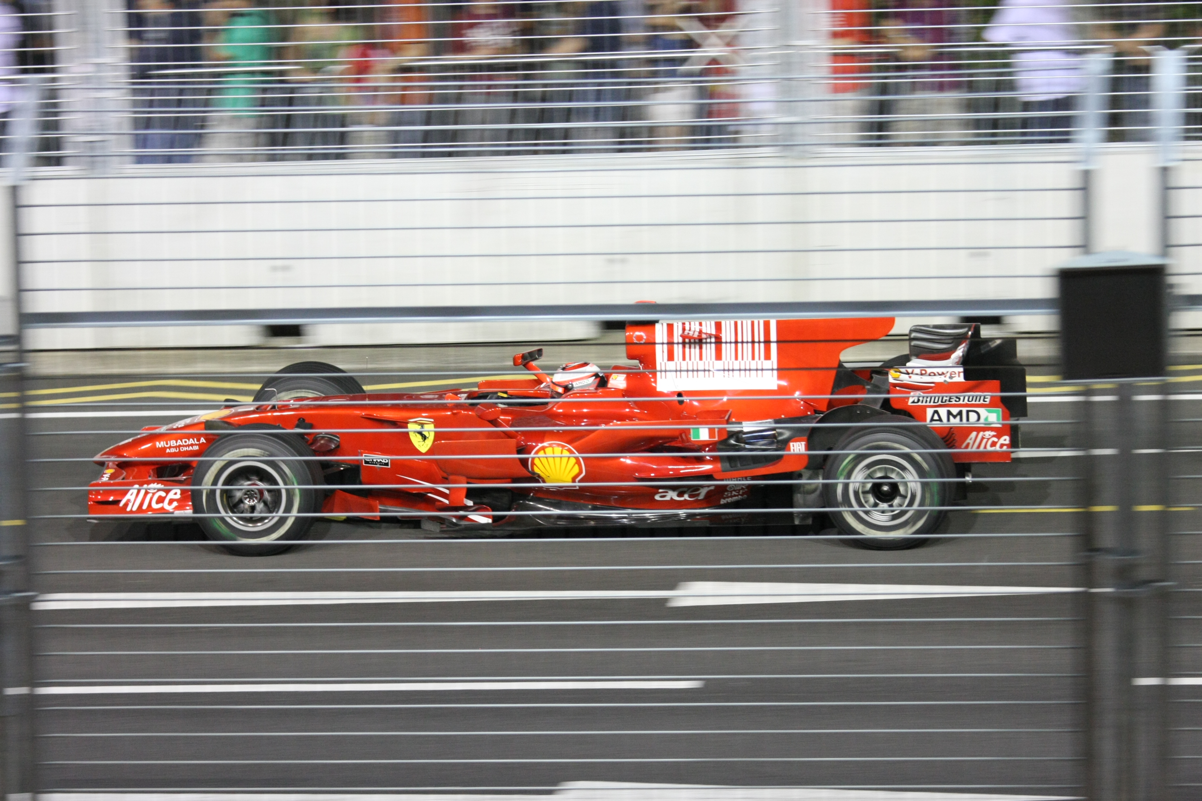 Kimi Räikkönen driving for Scuderia Ferrari at the 2008 Singapore Grand Prix.